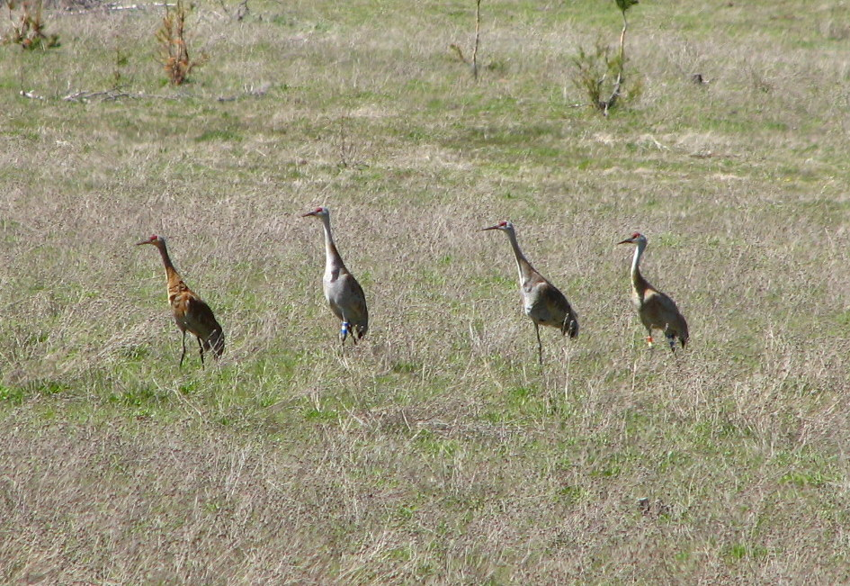 Sandhill cranes (Grus canadensis) at Conboy Lake National Wildlife Refuge, Klickitat County, Washington, United States.